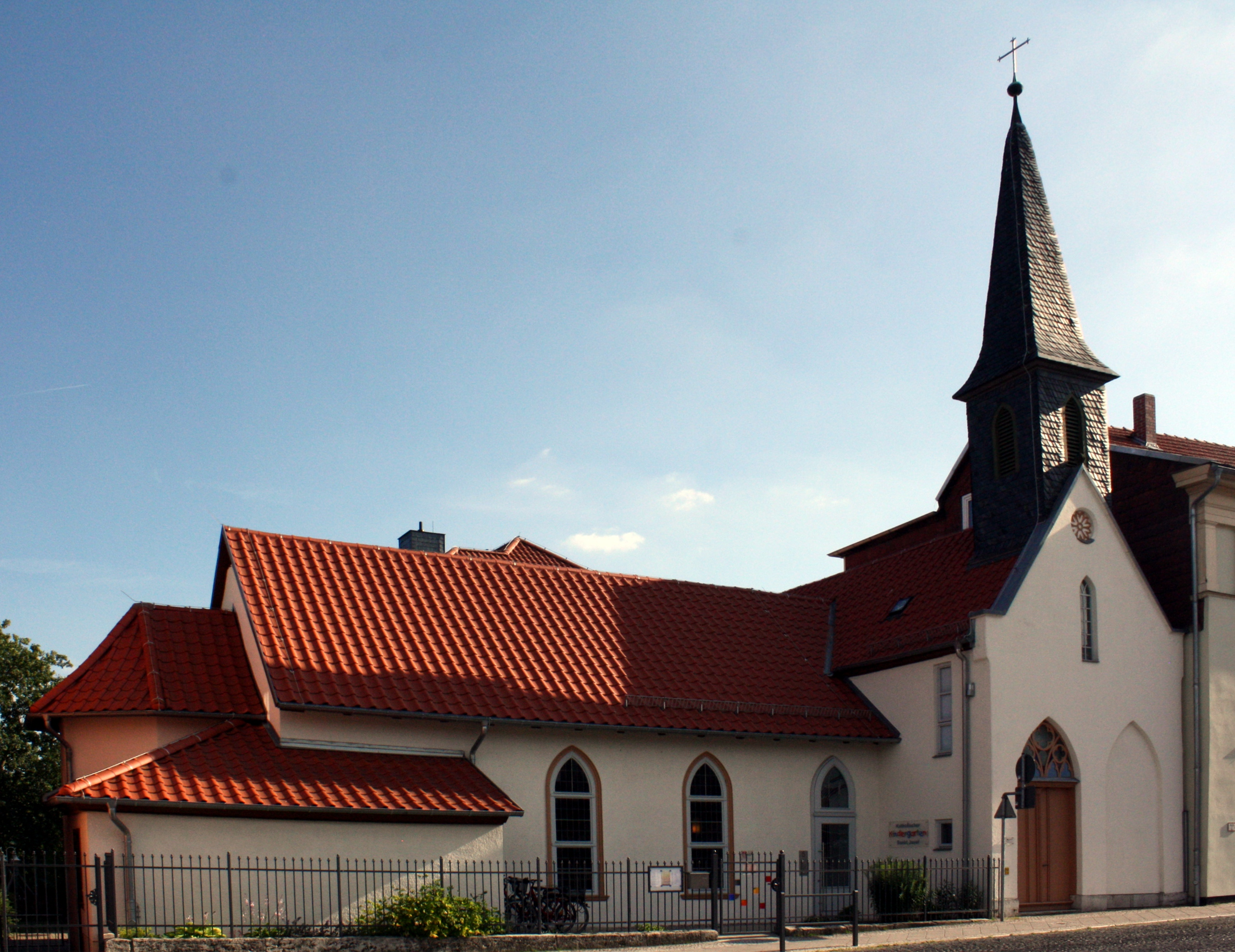 Bonifatius church in Mühlhausen/Thuringia